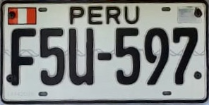 License plate of Peru. Taken in Lima, Peru